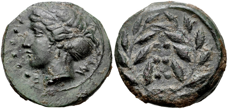 Sicily, Himera. Circa 420-407 BC. Æ Hemilitron (16mm, 3.43 g, 2h). Head of nymph left; six pellets (mark of value) before Six pellets (mark of value) within wreath. Kraay, Bronze, group b, 3; CNS 35; SNG ANS 186. Good VF, dark green patina.